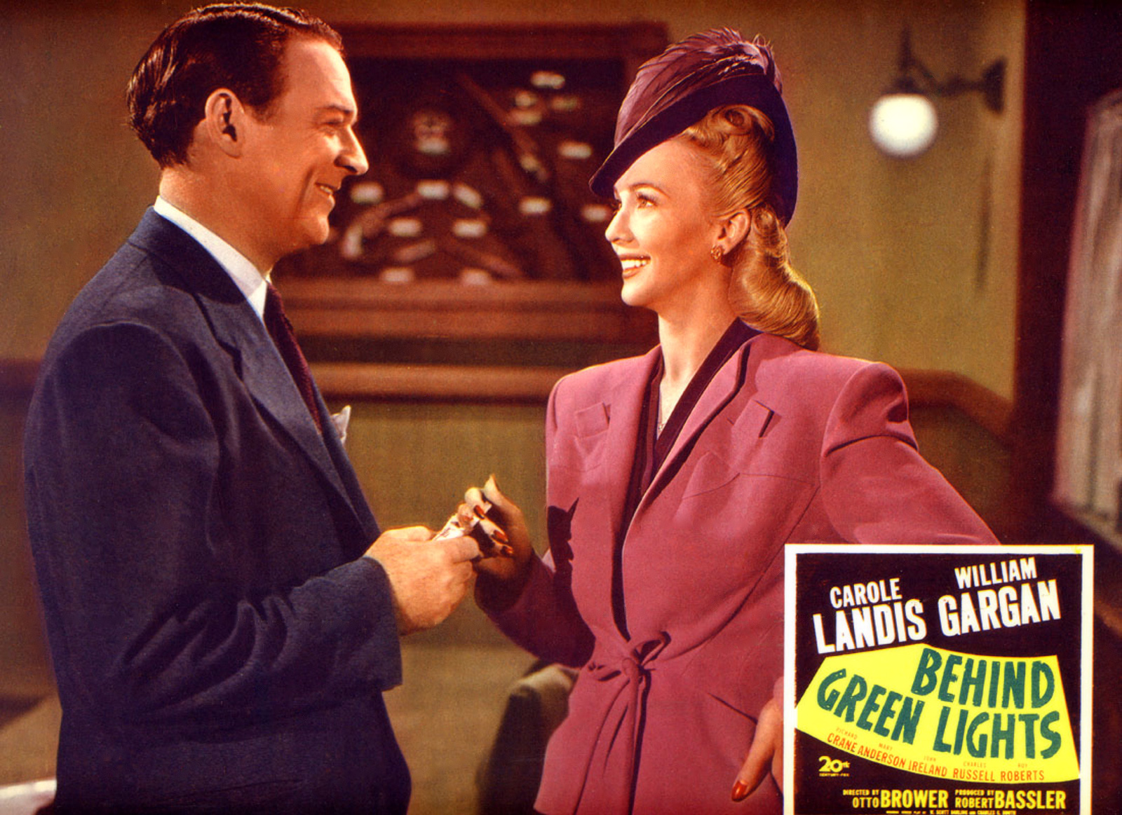 William Gargan & Carole Landis in Behind Green Lights - lobby card